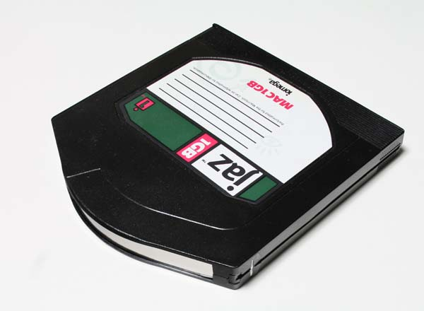 1GB cartridge of Iomega Jaz removable harddisk drive for Macintosh